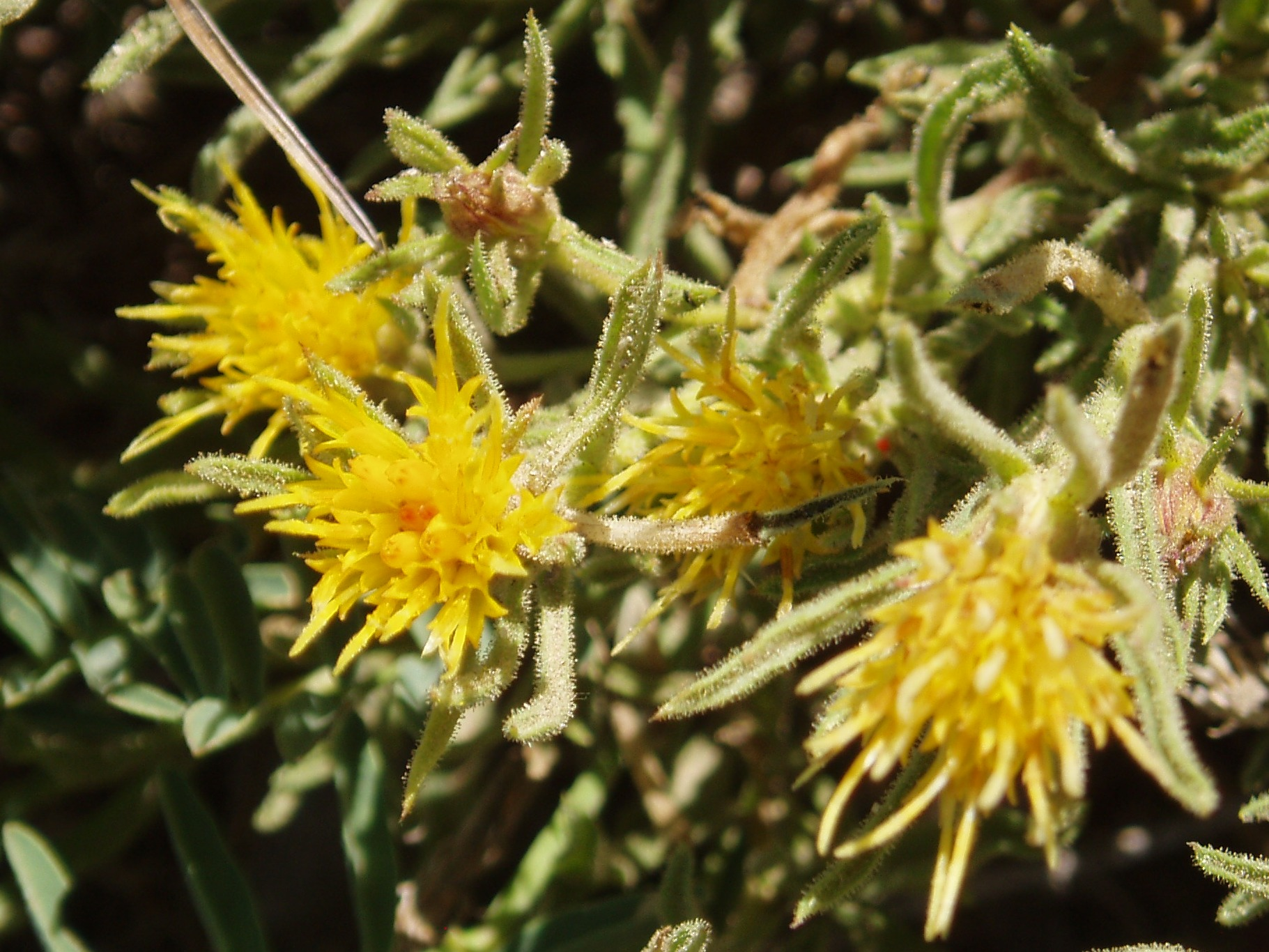 Ericameria discoidea in Emigrant Wilderness, California, USA.